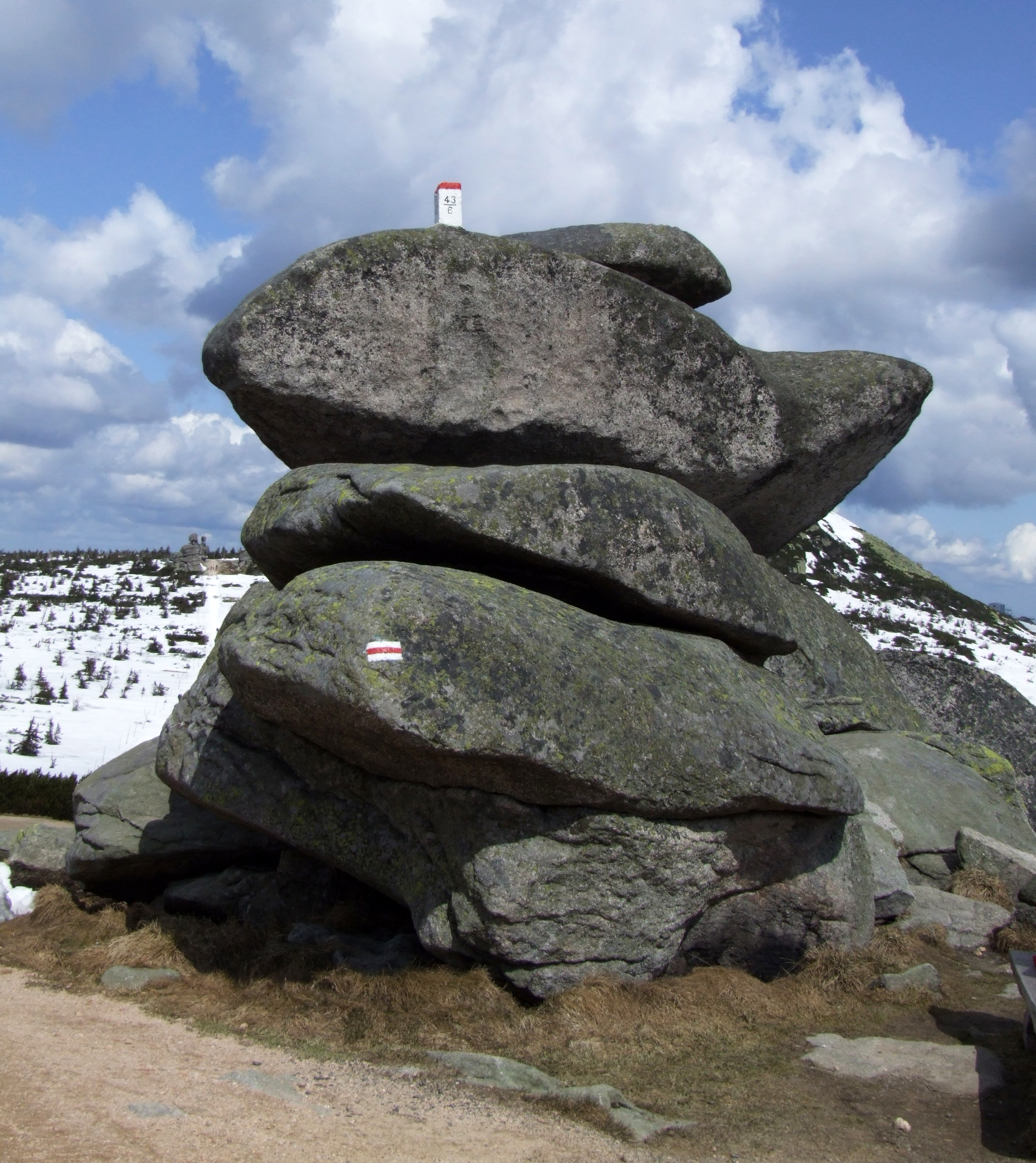 Rock Twarożnik/Tvarožník in Riesengebirge (Karkonosze/Krkonoše) with boundary stone.